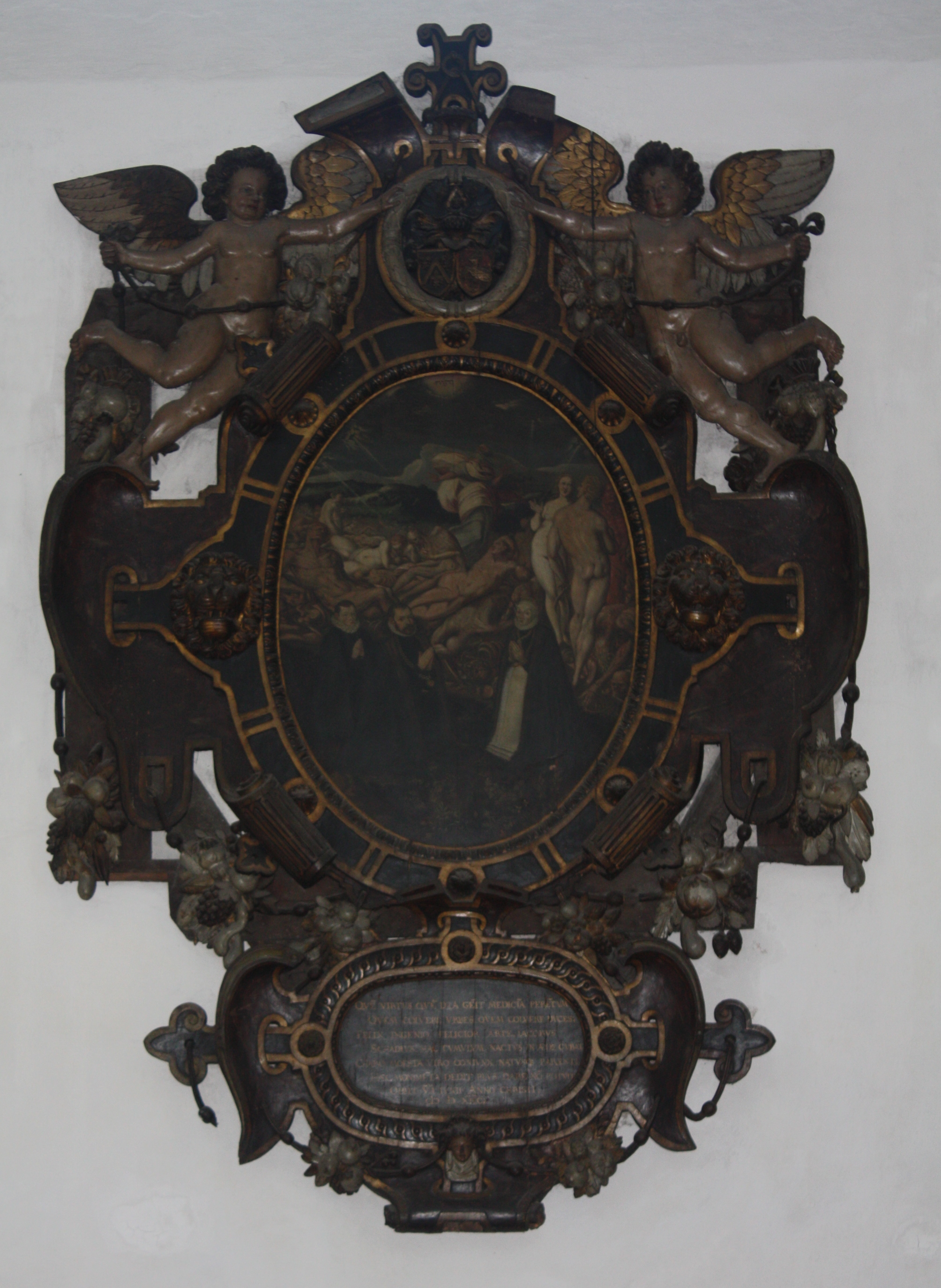 Gdańsk, St. Mary's Church